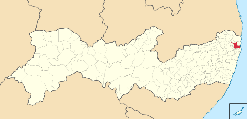 Mapa de Igarassu (2)